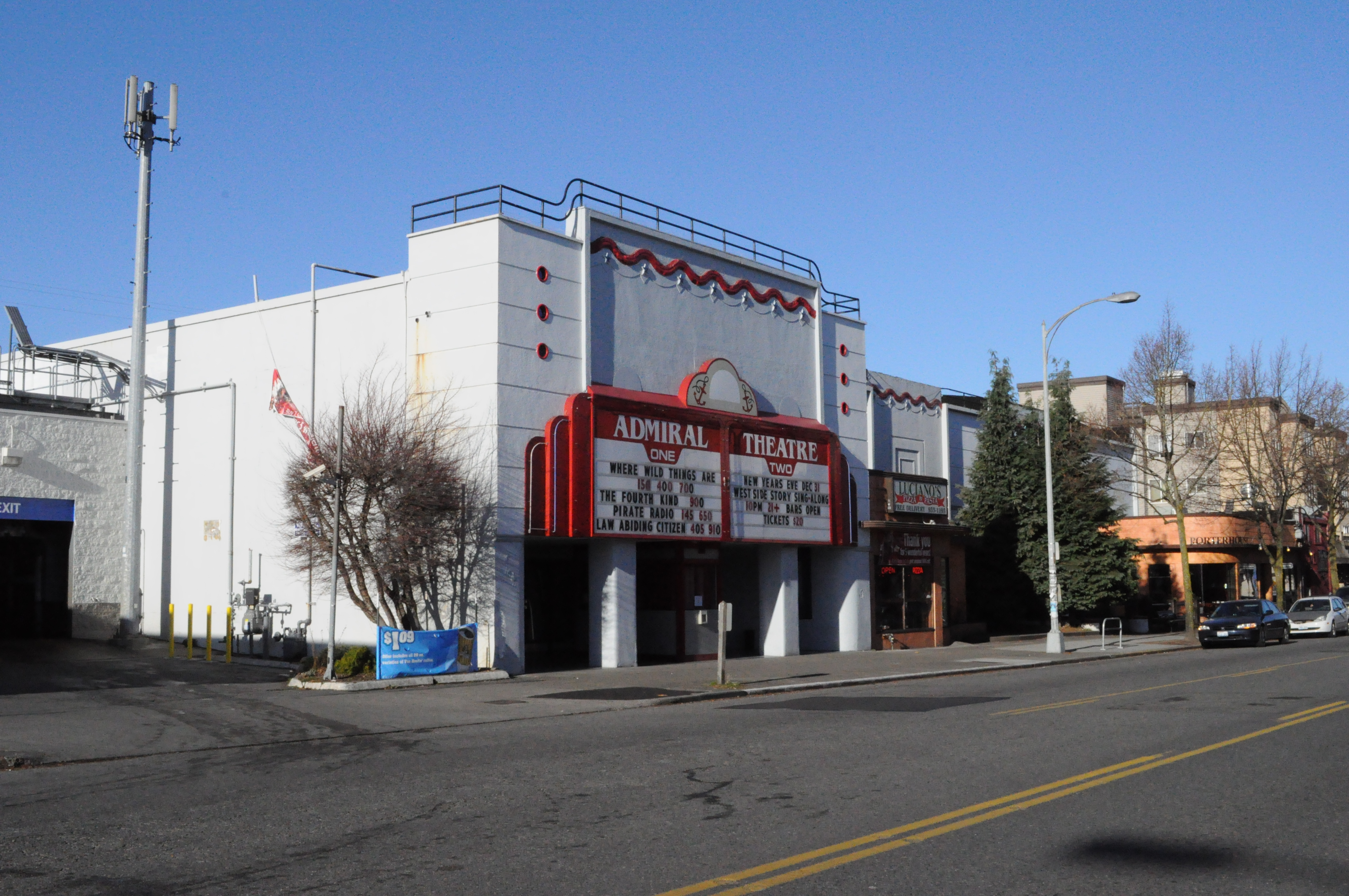 Seattle's nautically-themed Admiral Theater. More information on the category page.